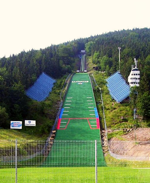 Wielka Krokiew ski jumping hill in Zakopane, Poland